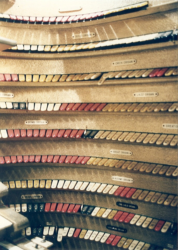 Photo of console of the Barton organ originally installed in the Chicago Stadium, Chicago, IL USA. Photo was taken after the organ was removed from the Stadium. Photo shows detail of right stop jambs.